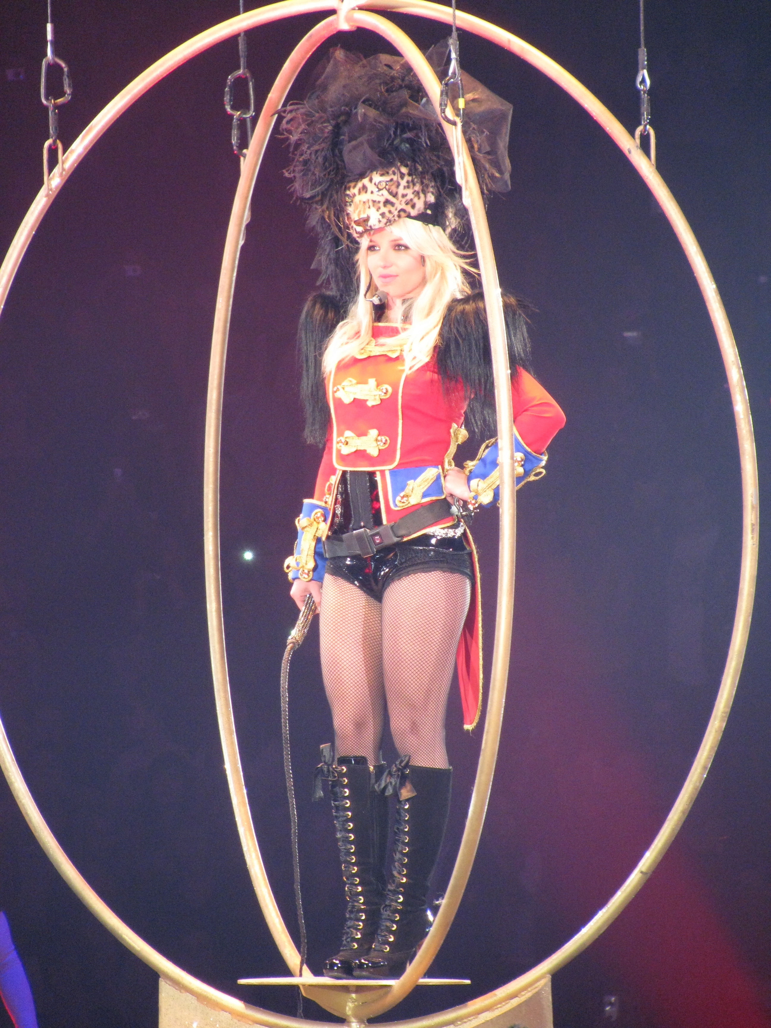 Britney Spears Circus.